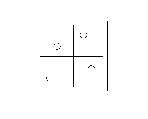 Jittered supersämplimine